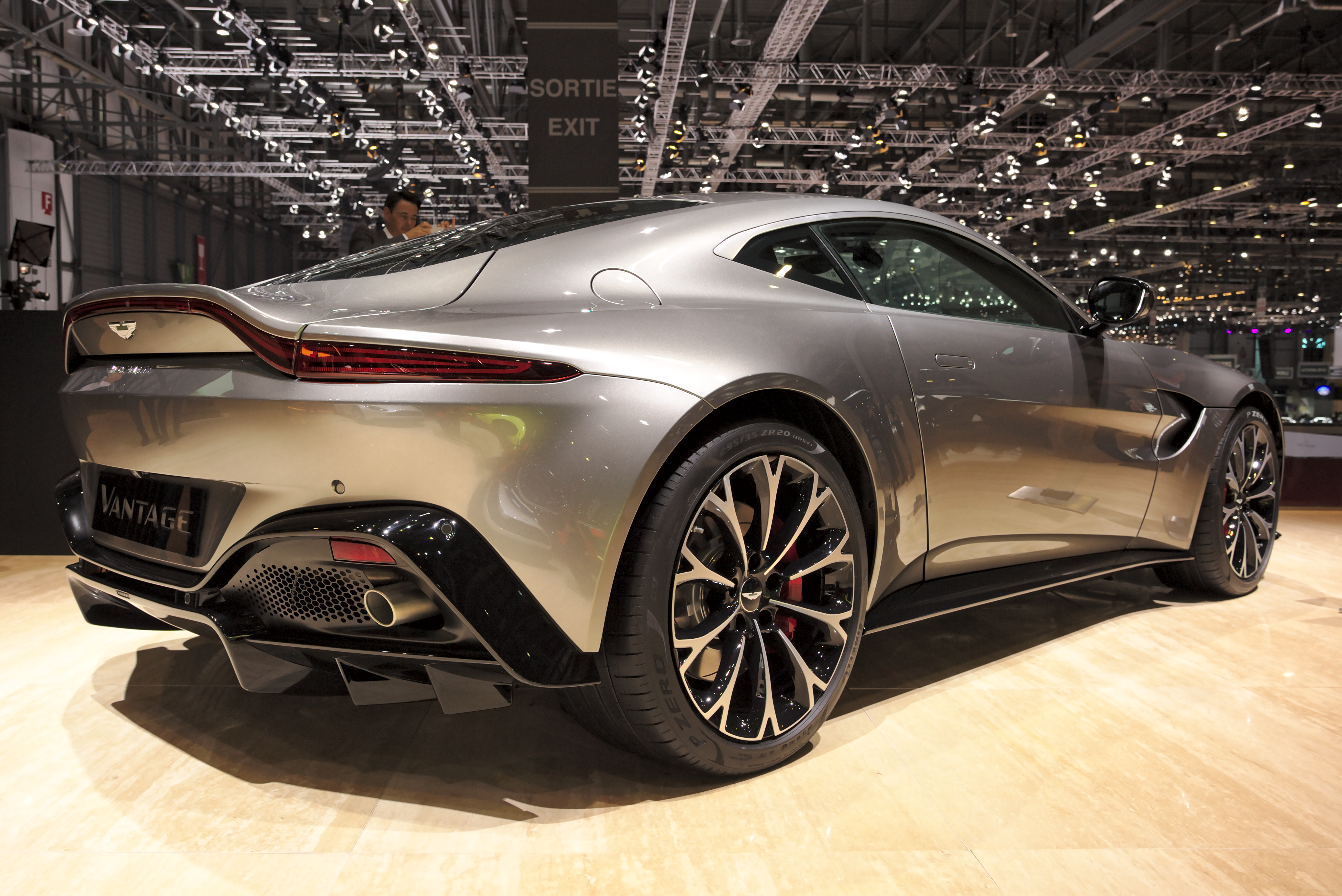 Aston Martin V8 Vantage at Geneva Motorshow 2018